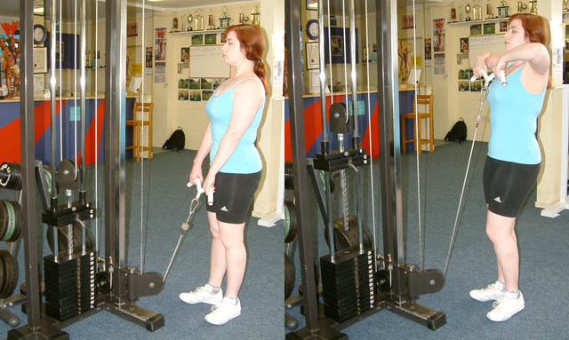 Thanks go to the model, Emily.